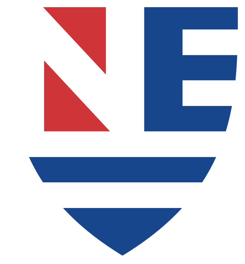 New England College Logo